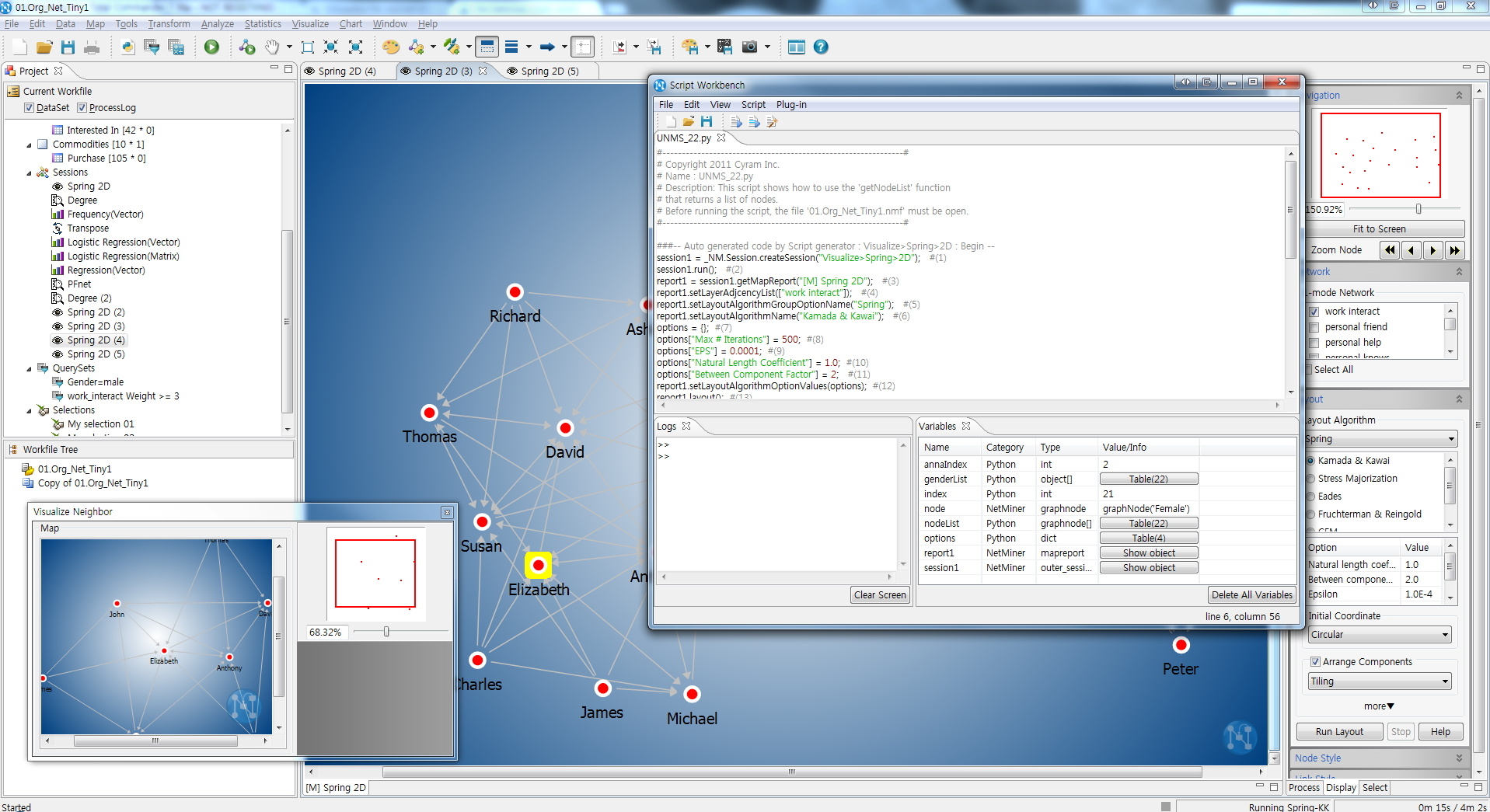 This image file is captured by Cyram Inc. who created the product netminer. This image file shows the main window of netminer.